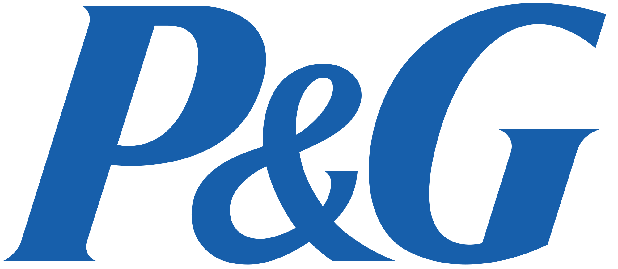 Product